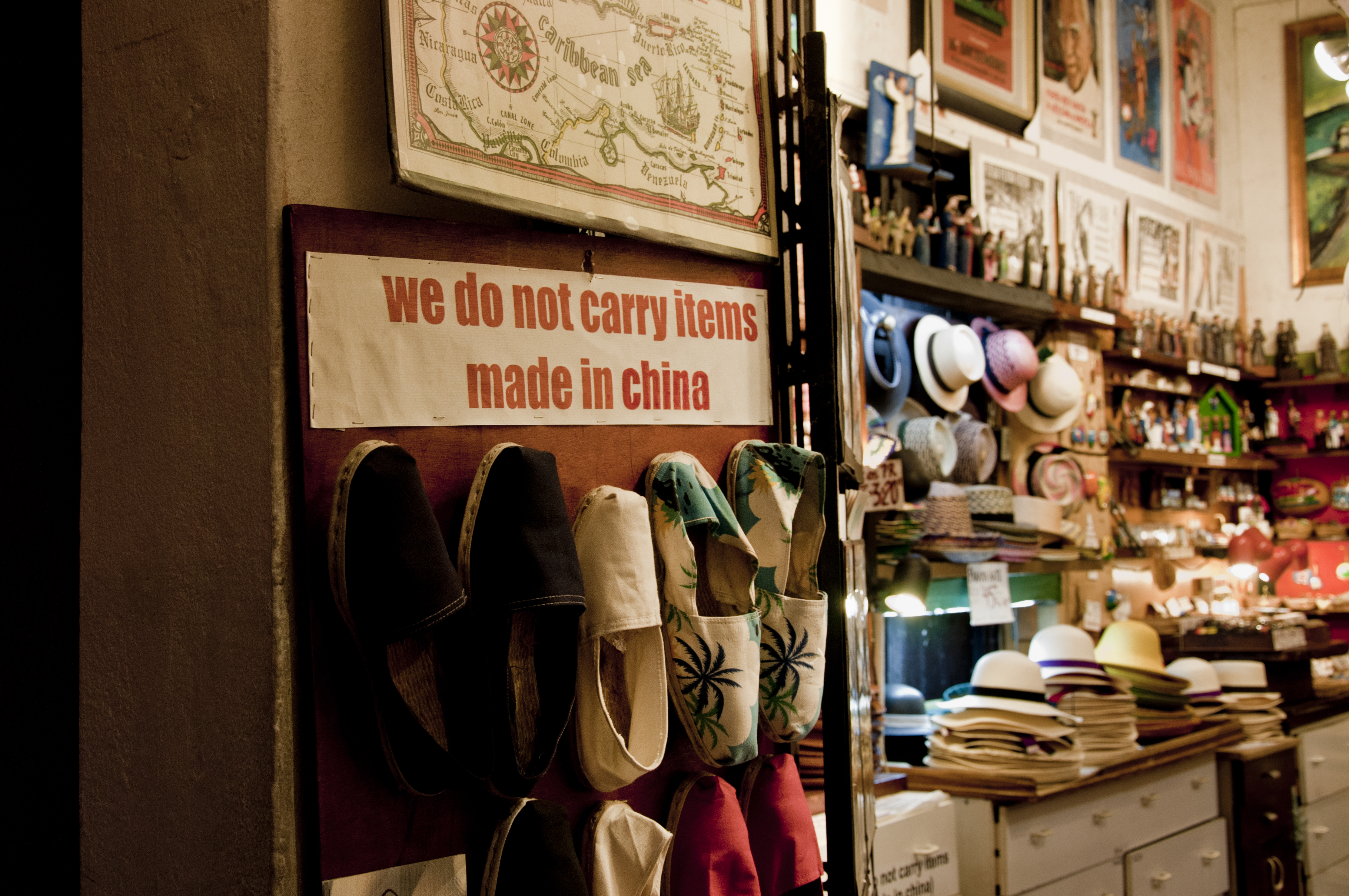 Shop near La Fortaleza, San Juan, Puerto Rico